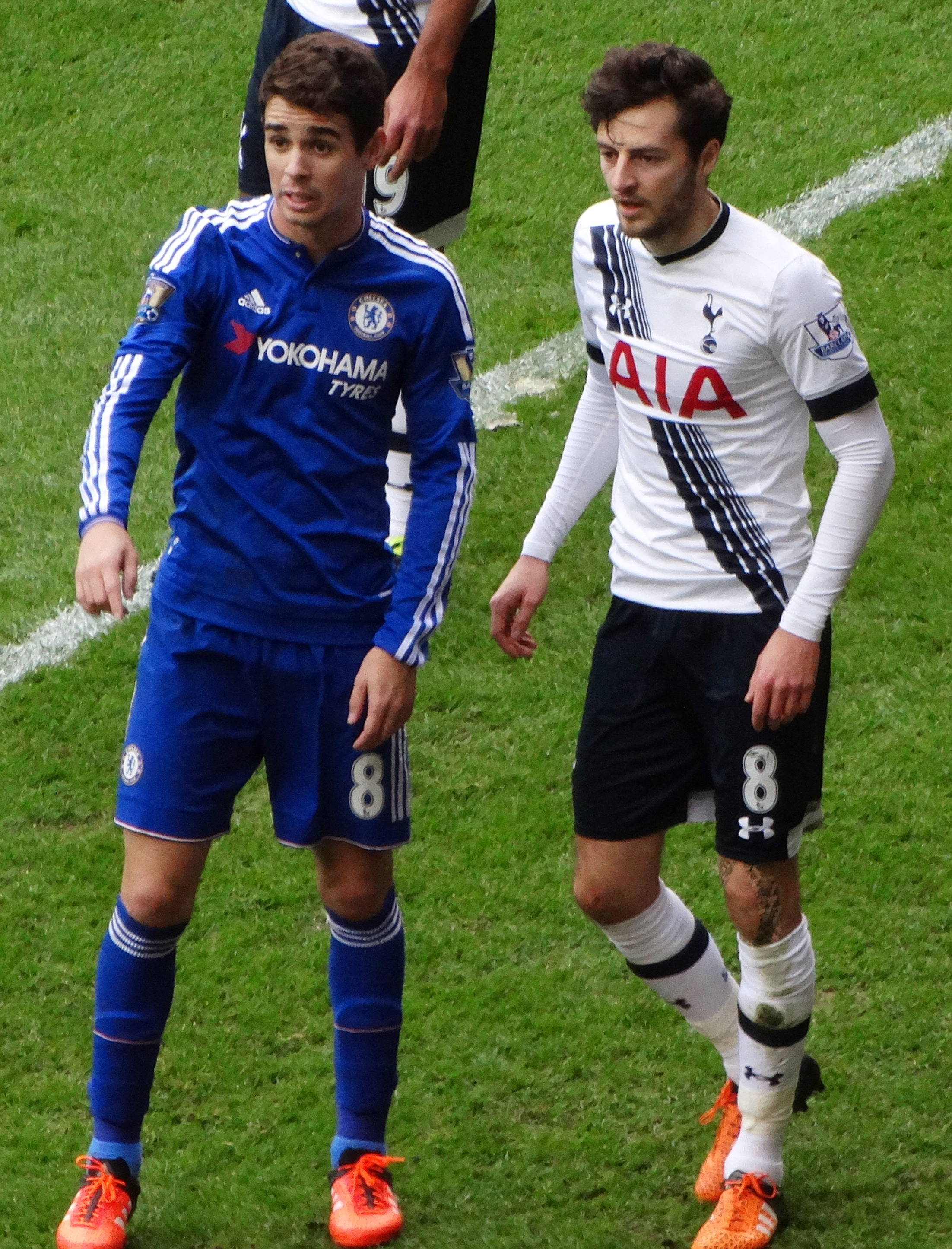 Spurs 0 Chelsea 0